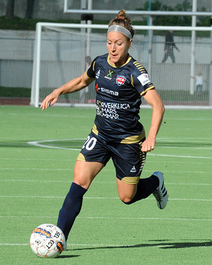 Josée Bélanger playing for FC Rosengård